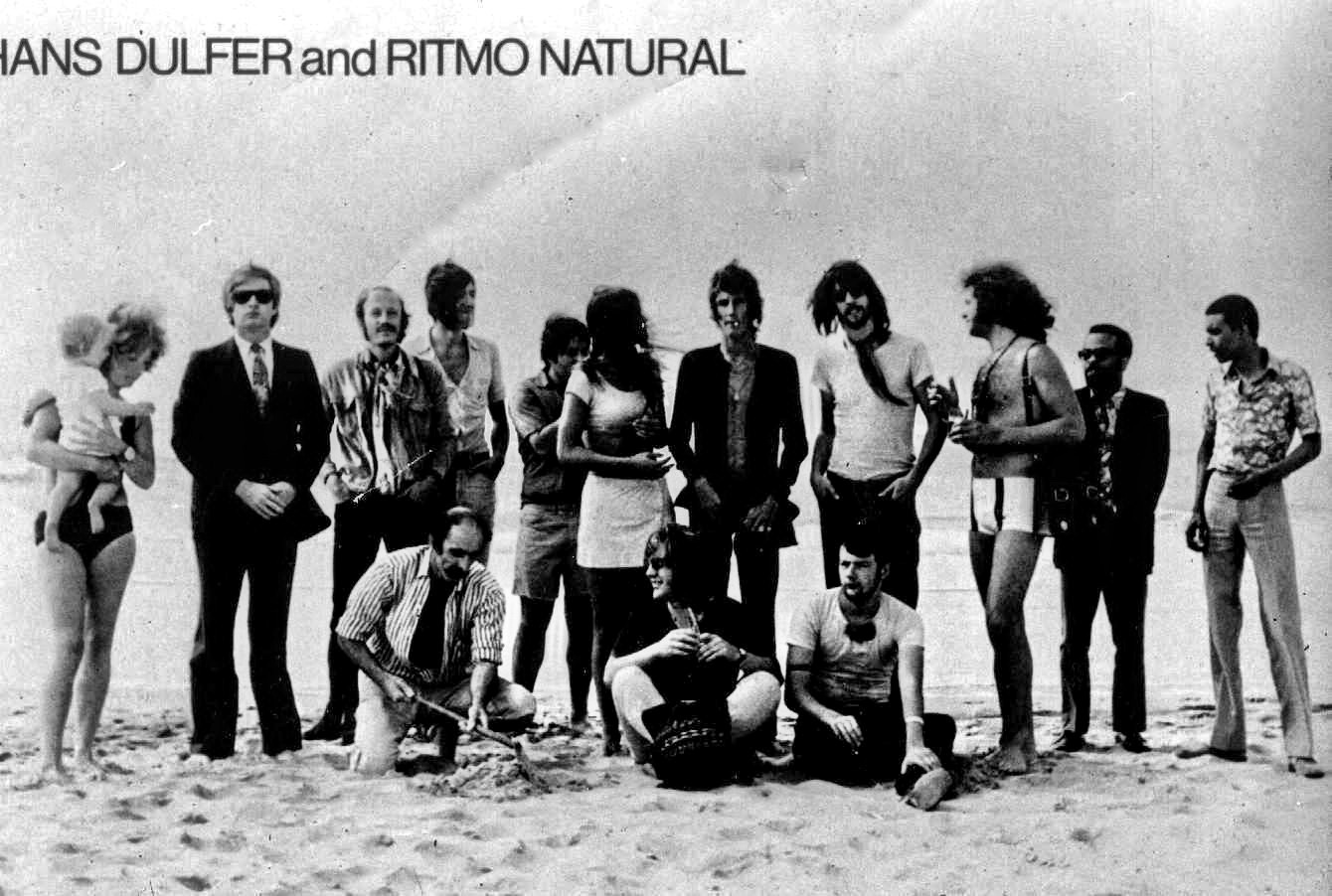 Ritmo Natural met Hans Dulfer